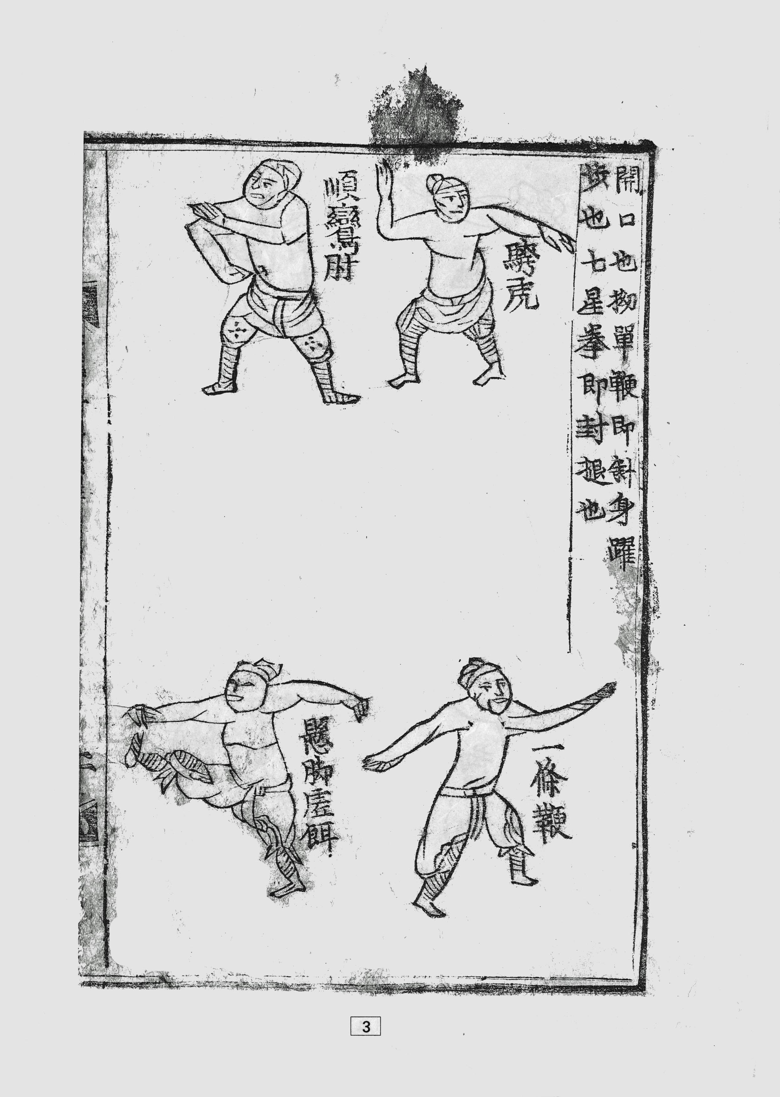 Muye Jebo - 3rd page of commentary and illustrations